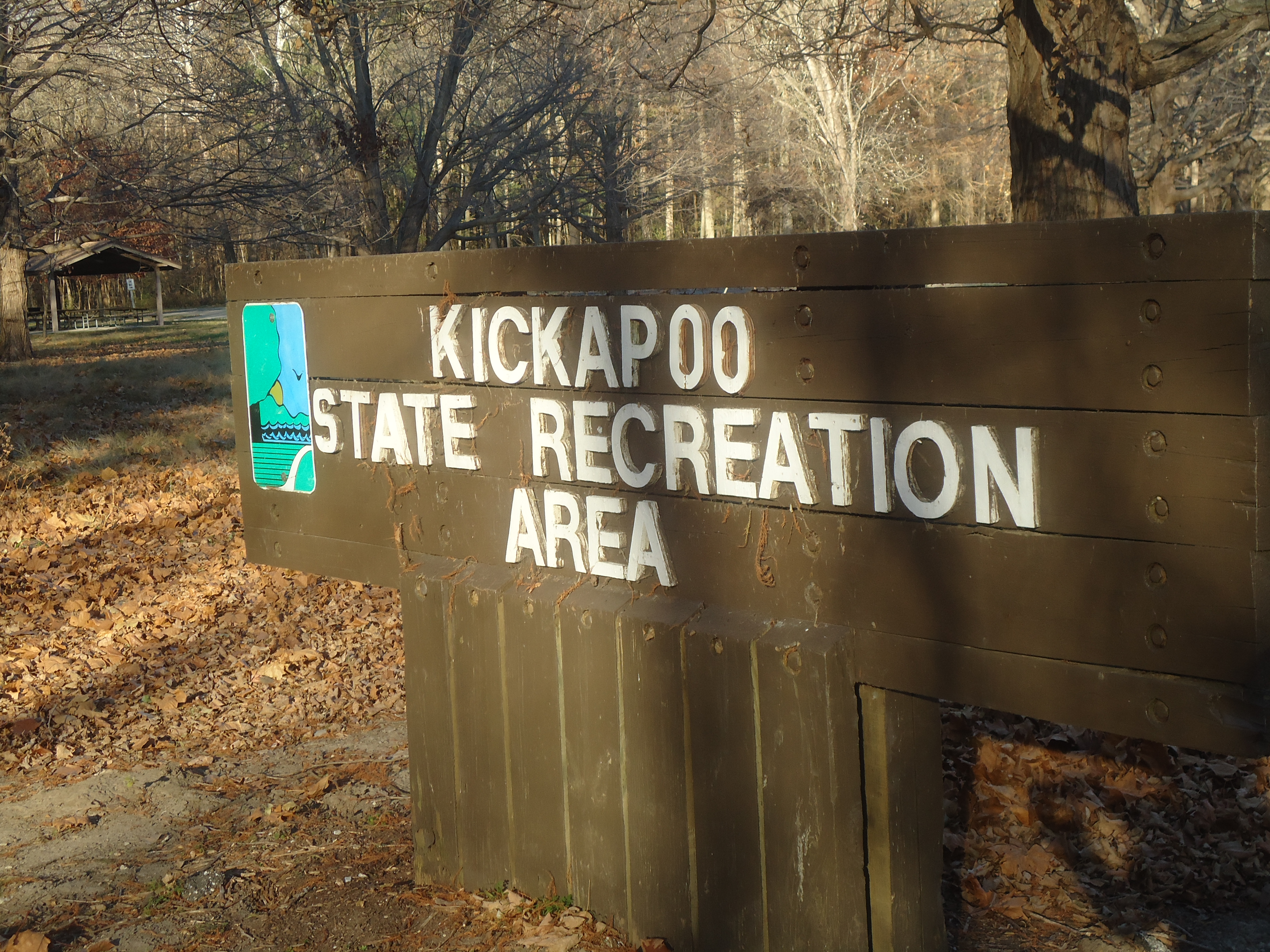 This picture of the Kickapoo State Park sign was taken around sunset in the fall. It is located before the bridge over the Vermilion River by Brian's Way Trail.